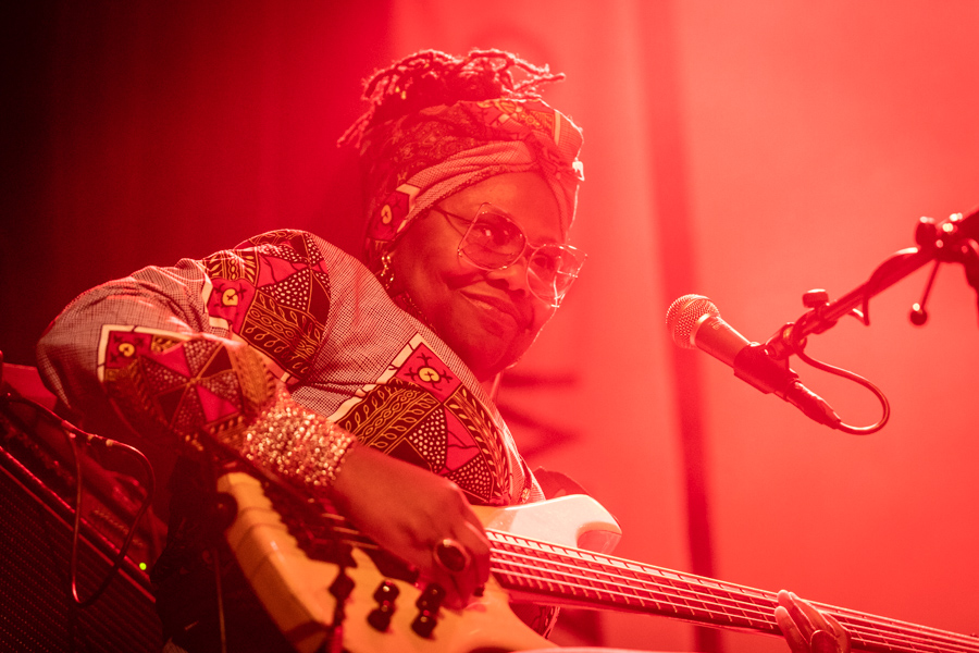 Manou Gallo in a concert with Zap Mama at Cosmopolite. The concert was part of Oslo Jazzfestival and took place on 16. August 2018 in Oslo. Lineup:Marie Daulne (vocal)Tanja Daese (vocal)Kesia Daulne-Quental (vocal)Bilou Doneux (vocal and guitar)Elvin Galland (keyboard)Manou Gallo (bass guitar)Boris Tchango (drums)